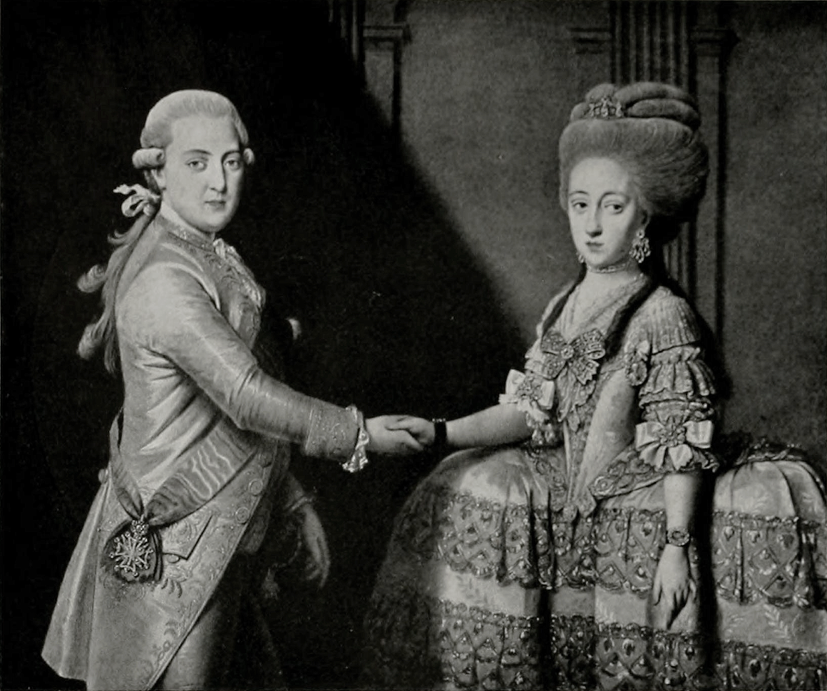 Anton König von Sachsen (1755–1836) avec son premier épouseCharlottede Savoie, princesse de Sardaigne (1764–1782)